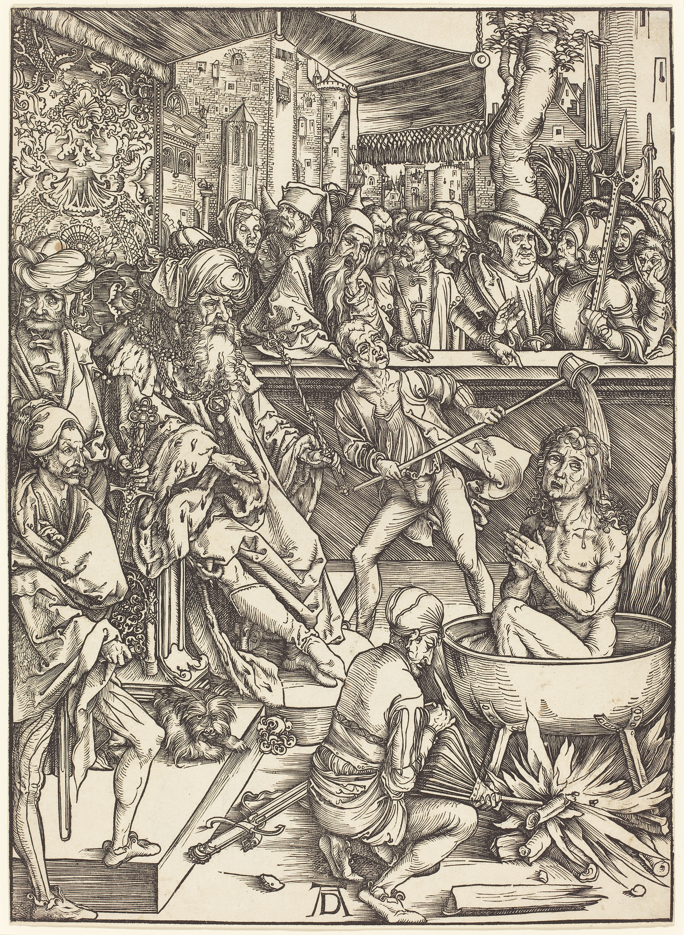 Does not refer to the Revelations, but an event in the life of the saint. The Roman emperor Domitian sitting on his throne on the left. According to legend, John was sentenced to be boiled in a cauldron of oil for his refusal to worship pagan gods. He remained unharmed by this ordeal and was set free.